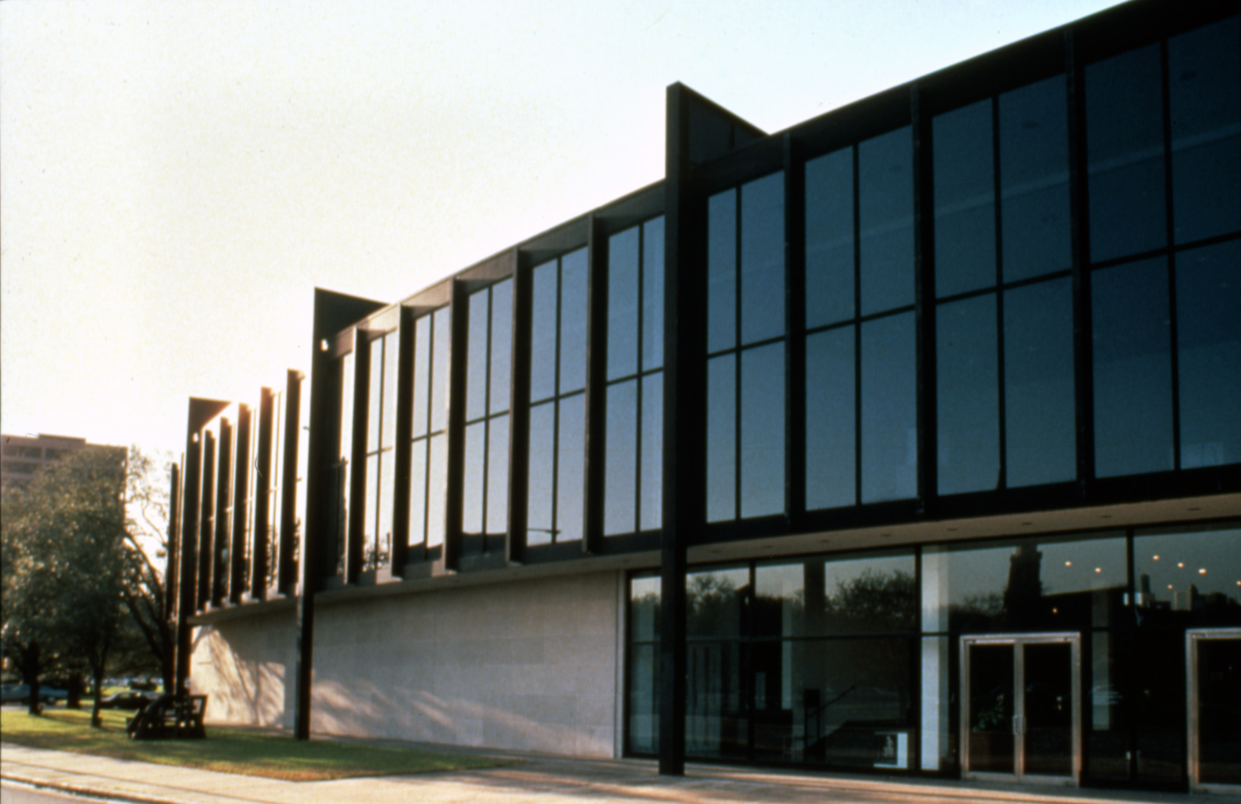 Caroline Wiess Law Building - Museum of Fine Arts Houston